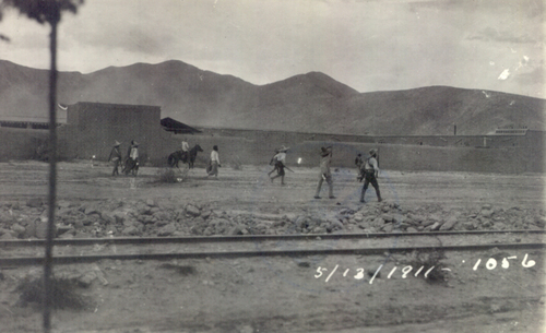 Starting the first shot. Maderistas entering Torreon on May 13, 1911.